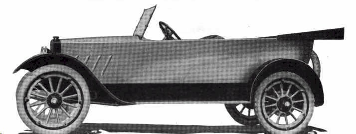 1916 Hackett Four Touring